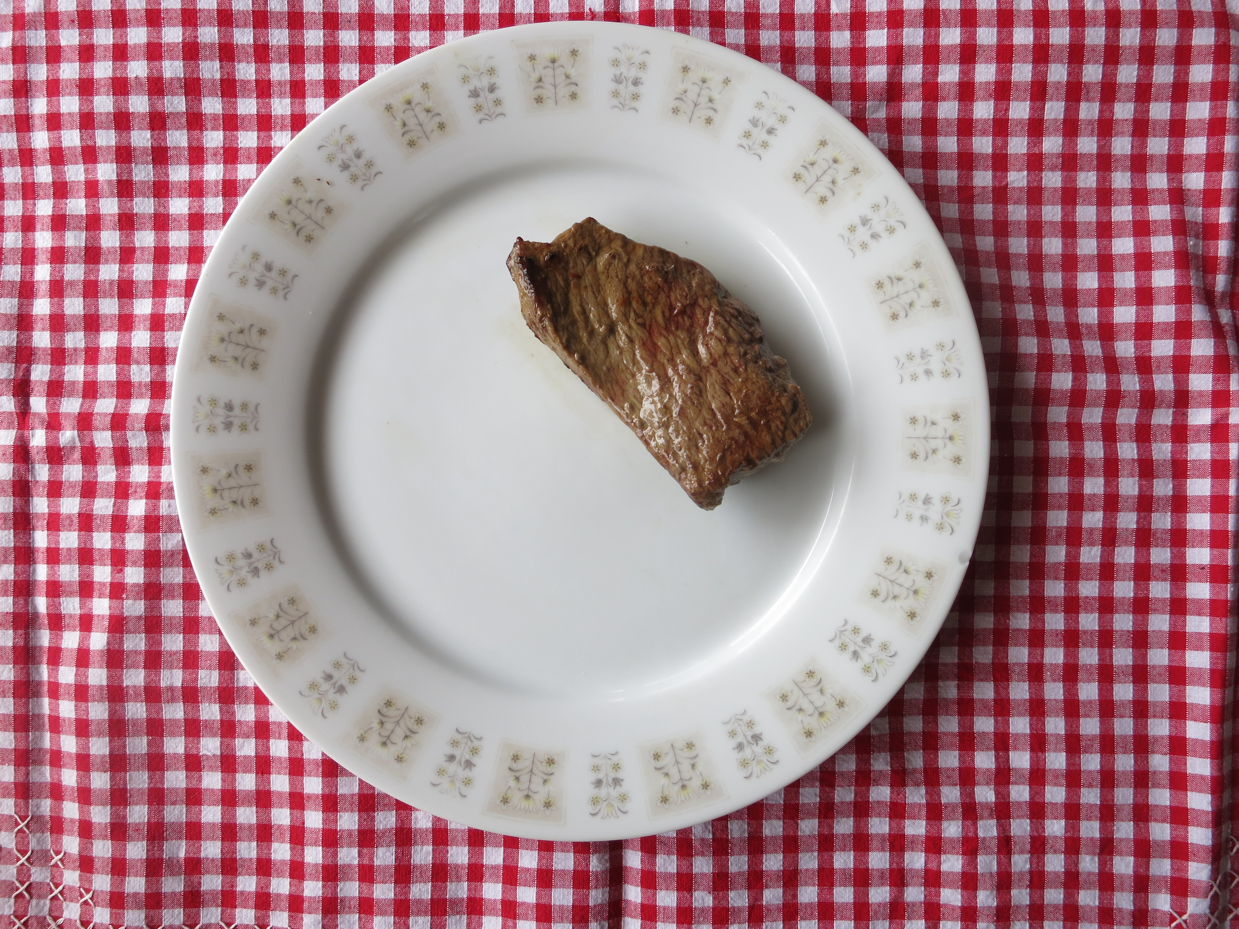 65 grams red meat (100 grams raw weight)